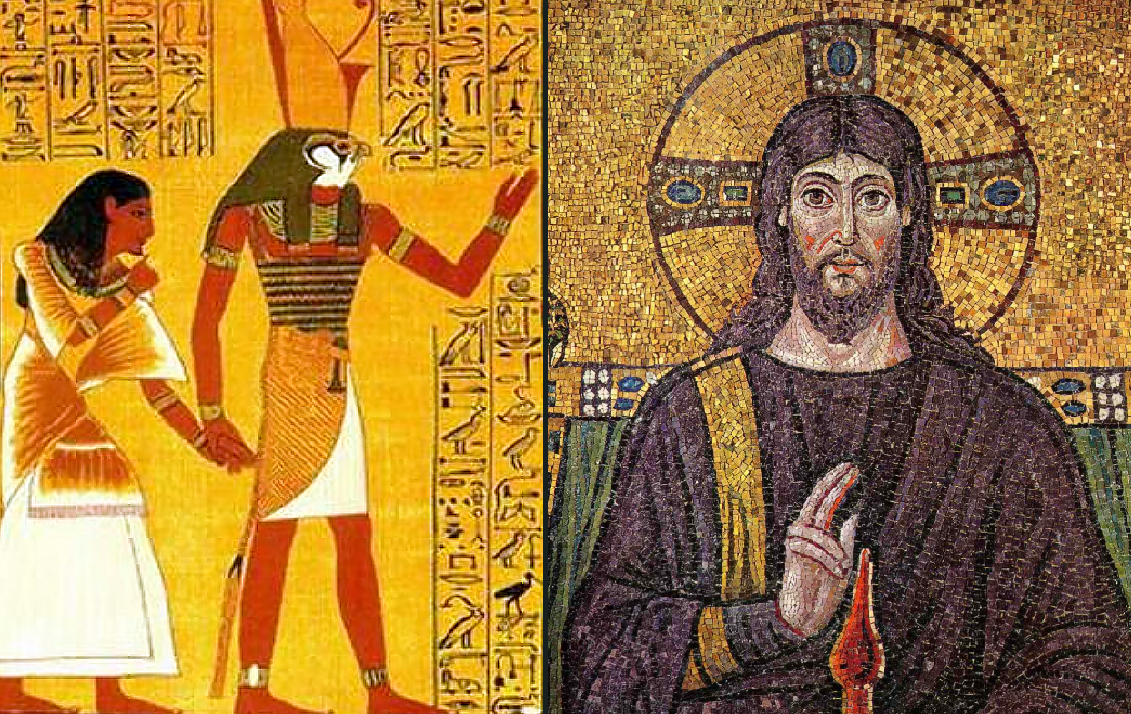 Comparison of Image:Horus 3.jpg and Image:Christus_Ravenna_Mosaic.jpg.